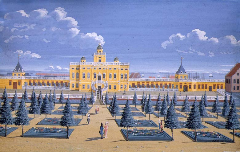 Gouache painted by Johan Jacob Bruun depisting Sophie Amalienborg which burned down to the ground in 1689.